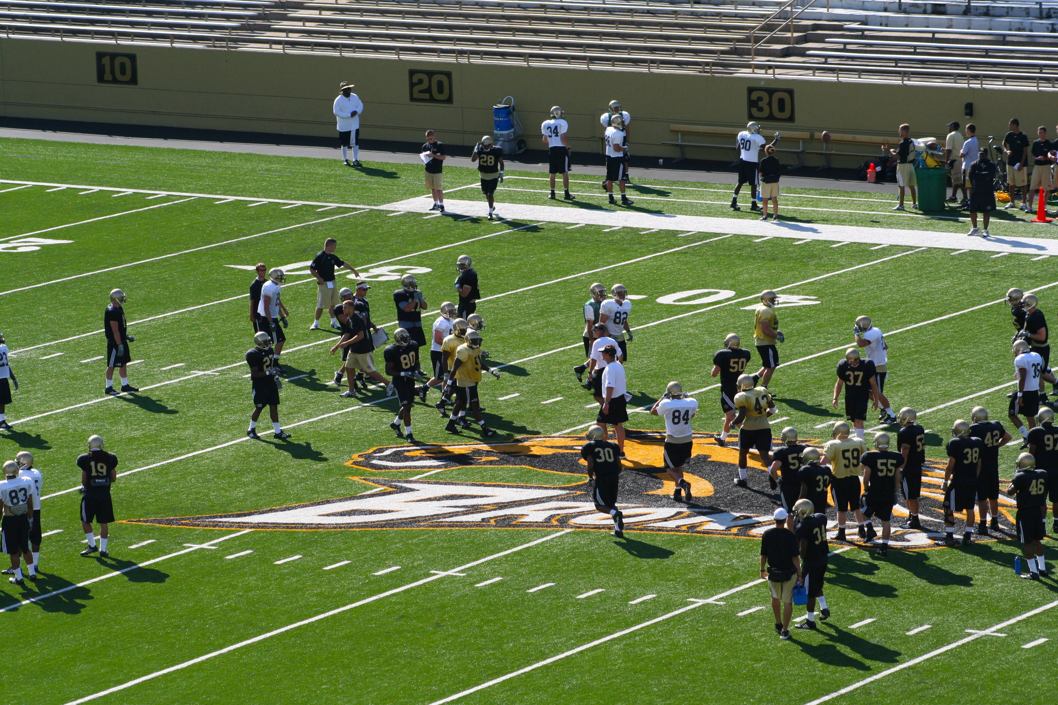 Western Michigan University football team participating in preseason practice at Waldo Stadium in Kalamazoo, Michigan.